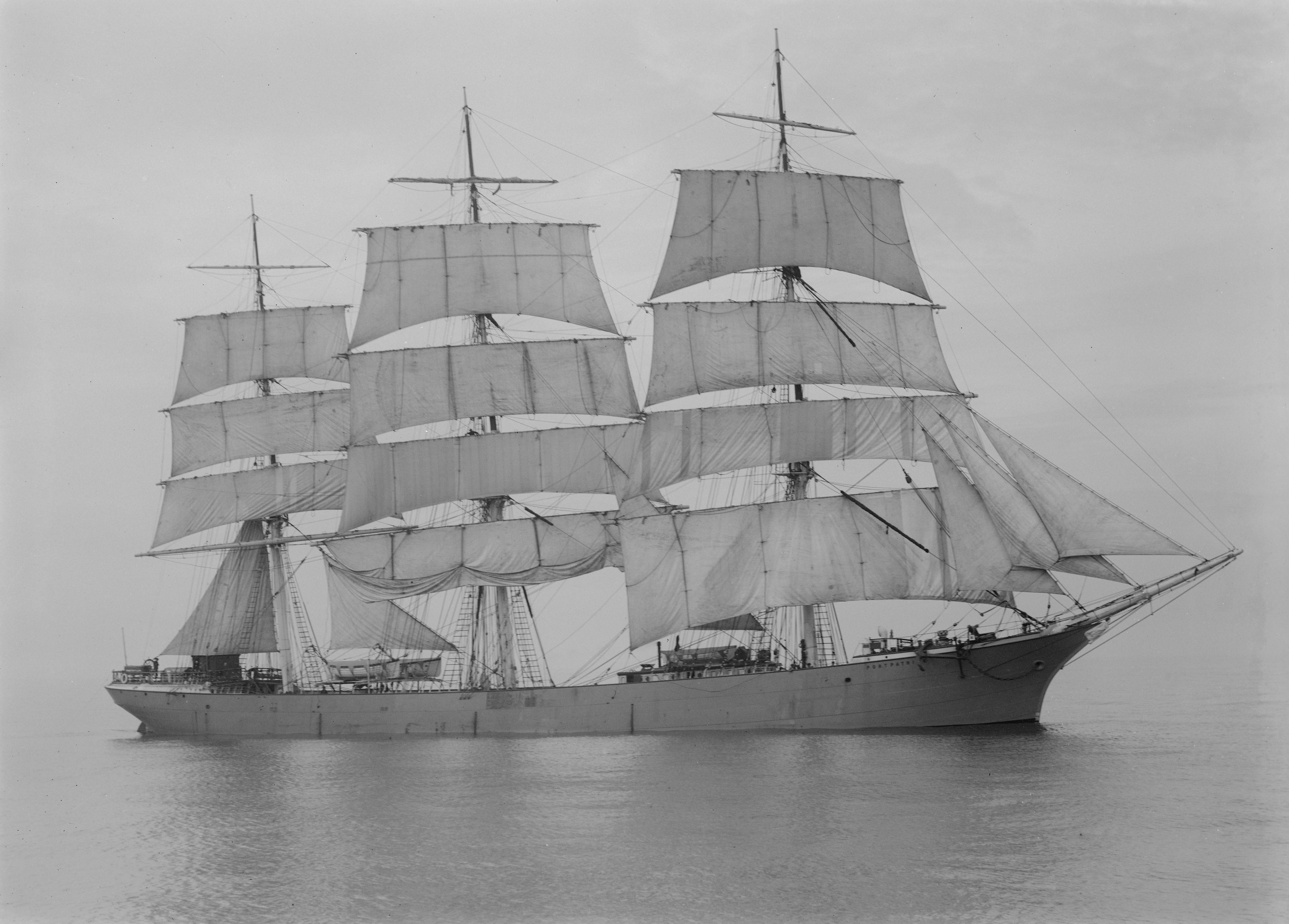 Original caption: “PORT PATRICK”